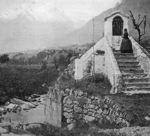 Foundation of the Roman bridge in Algund, South Tyrol, with the more recent wayside shrine on top. Photo from about 1900